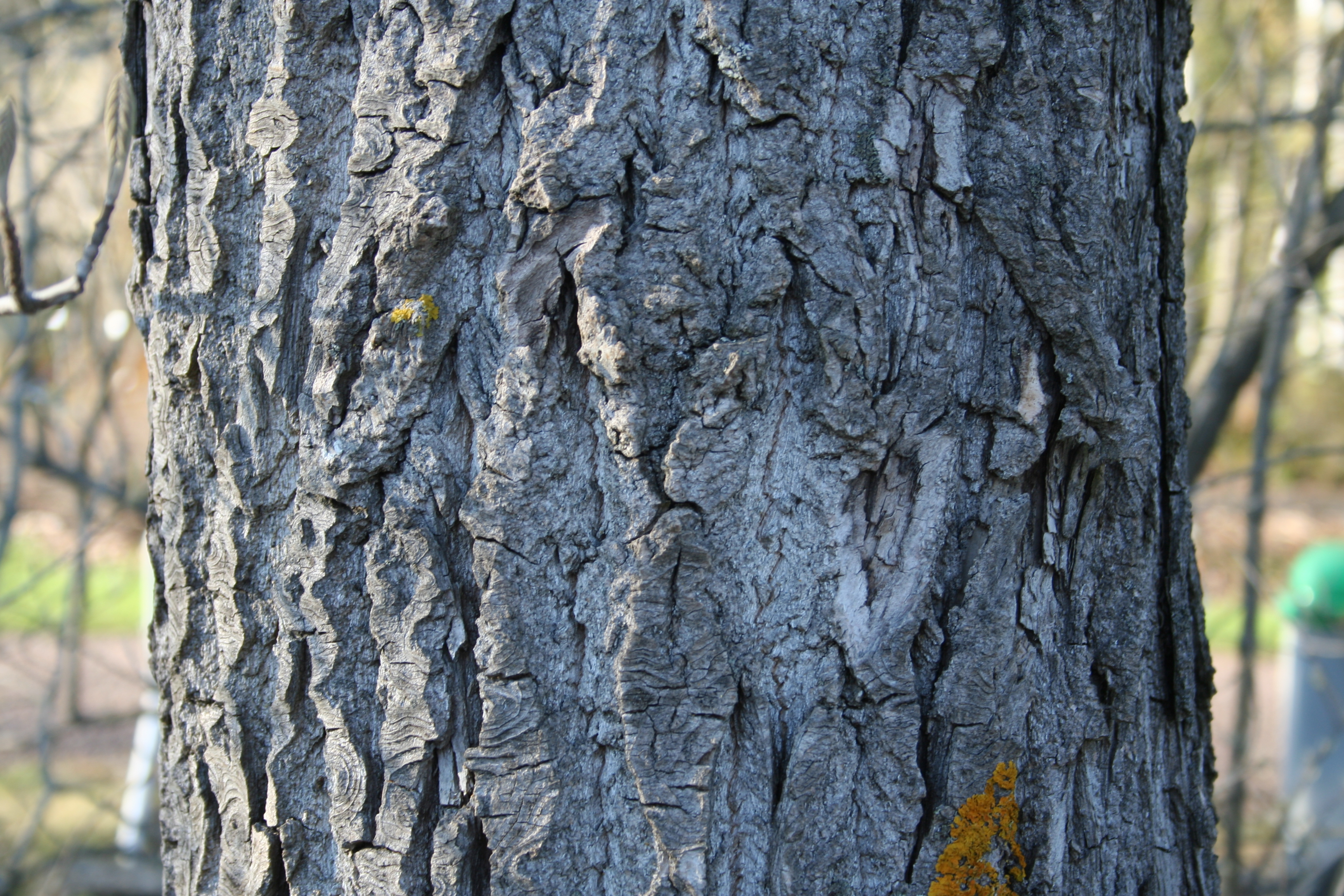 Bark of Populus balsamifera. Oulu University Botanical Gardens, Finland.